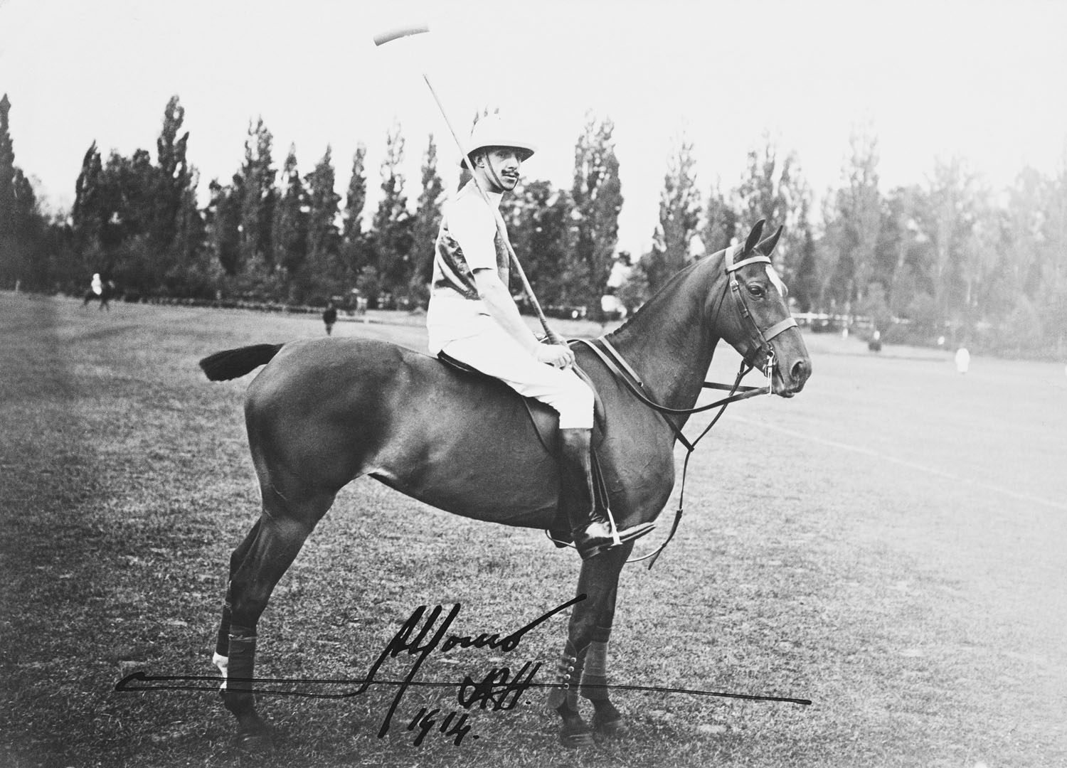 King Alfonso XIII of Spain and his mare "Countess" playing polo at the elitist Real Club de la Puerta de Hierro in Madrid, Spain.